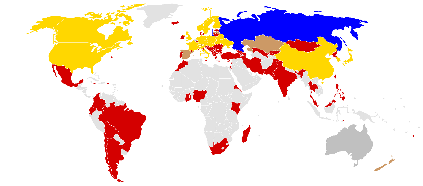 Countries with at least one gold medal Countries with at least one silver medal Countries with at least one bronze medal Countries that didn't get any medal Russia – Independent Olympians Countries that did not participate